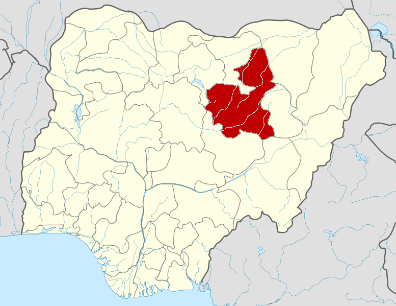 Map locator of Nigeria.